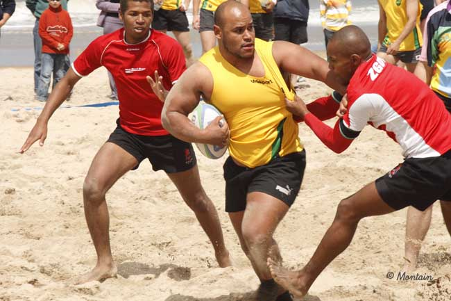 Beach rugby